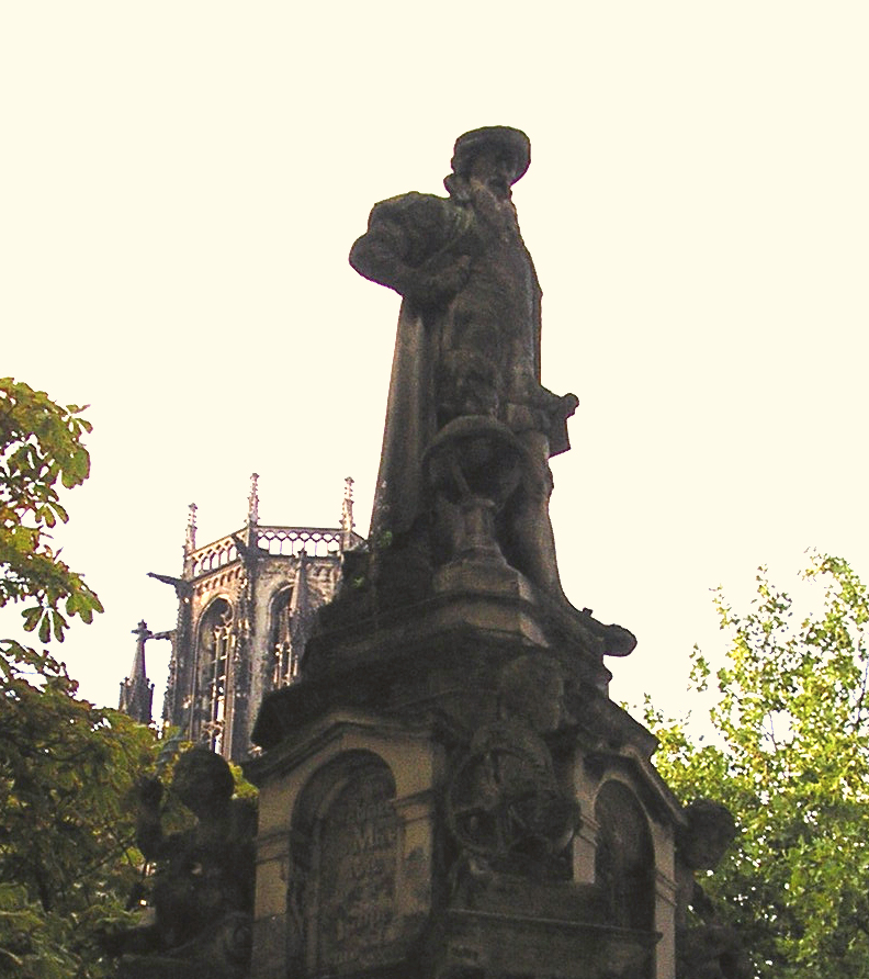 Fountain representing Gerardus Mercator build in 1878, Duisburg, Germany